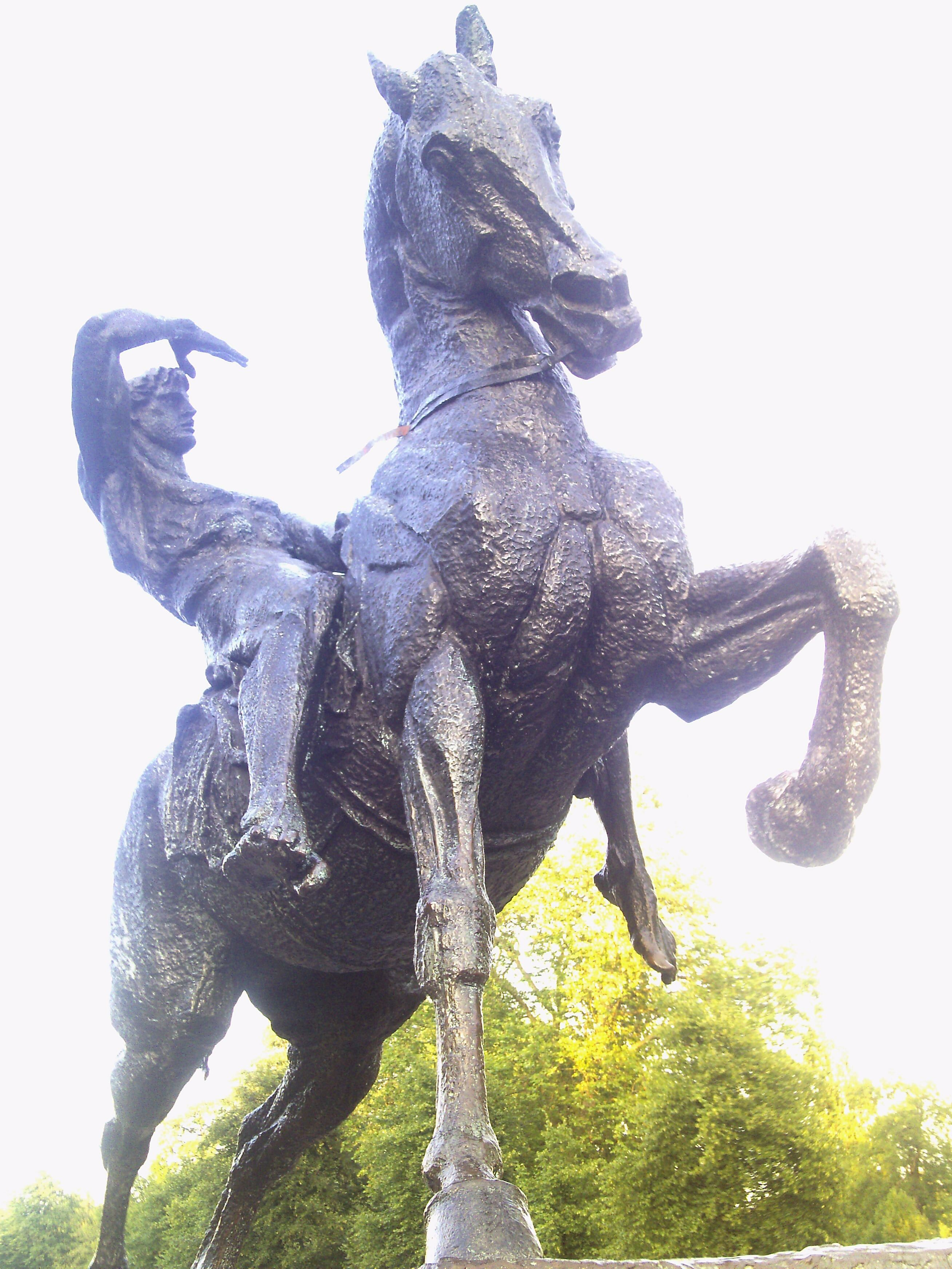 Physical Energy, a sculpture by George Frederic Watts, located in Kensington Gardens, London.